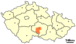 Location of Jihlava District in the Czech Republic. Drawn by me.